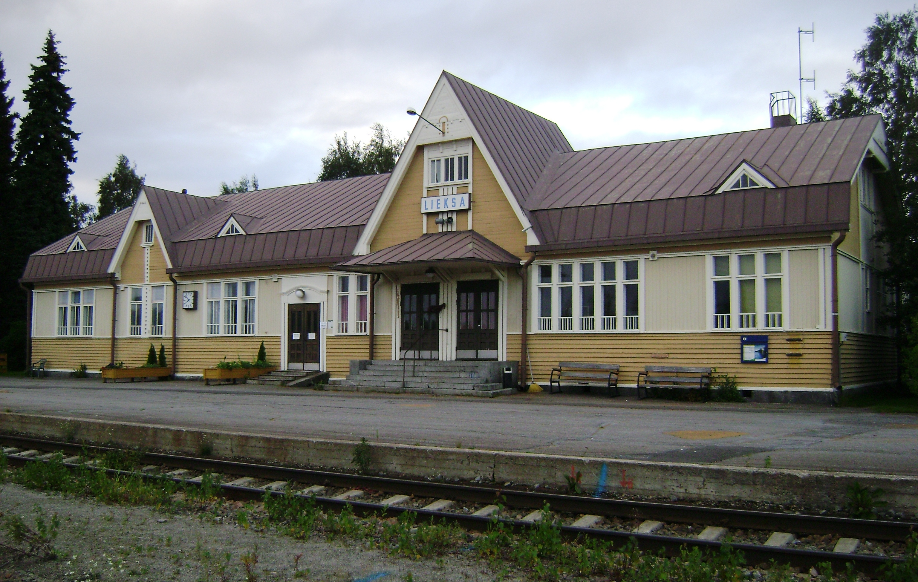 Lieksa railway station.